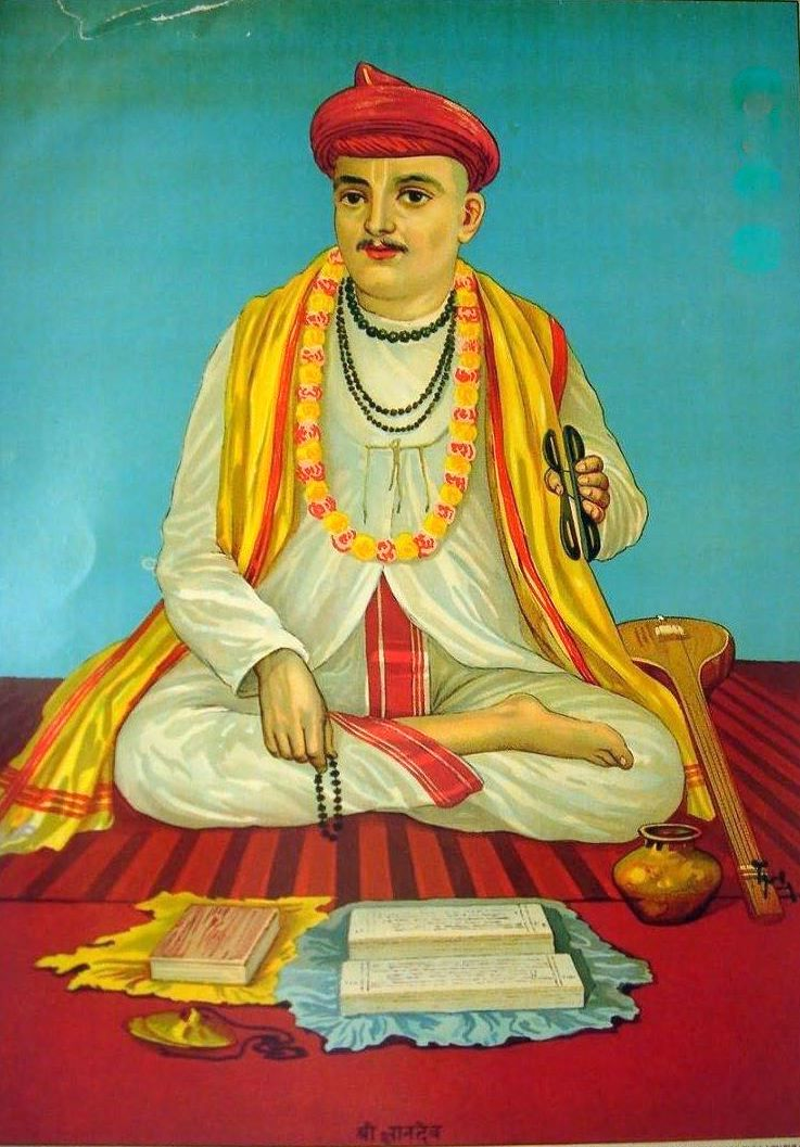 The Marathi poet-saint Jnanadeva, from the Ravi Varma Press, 1910's